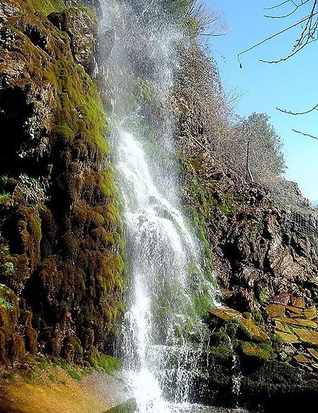 Gümüşsu Waterfalls in Çivril, Denizli Province, Turkey